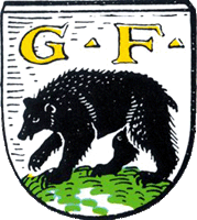 Wappen von Insterburg